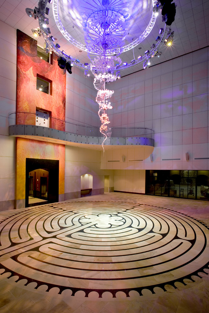 This is a monumental glass and LED chandelier and lighting system, commissioned by John Madden Company, and installed at the Palazzo Verdi in Greenwood Village, Colorado.